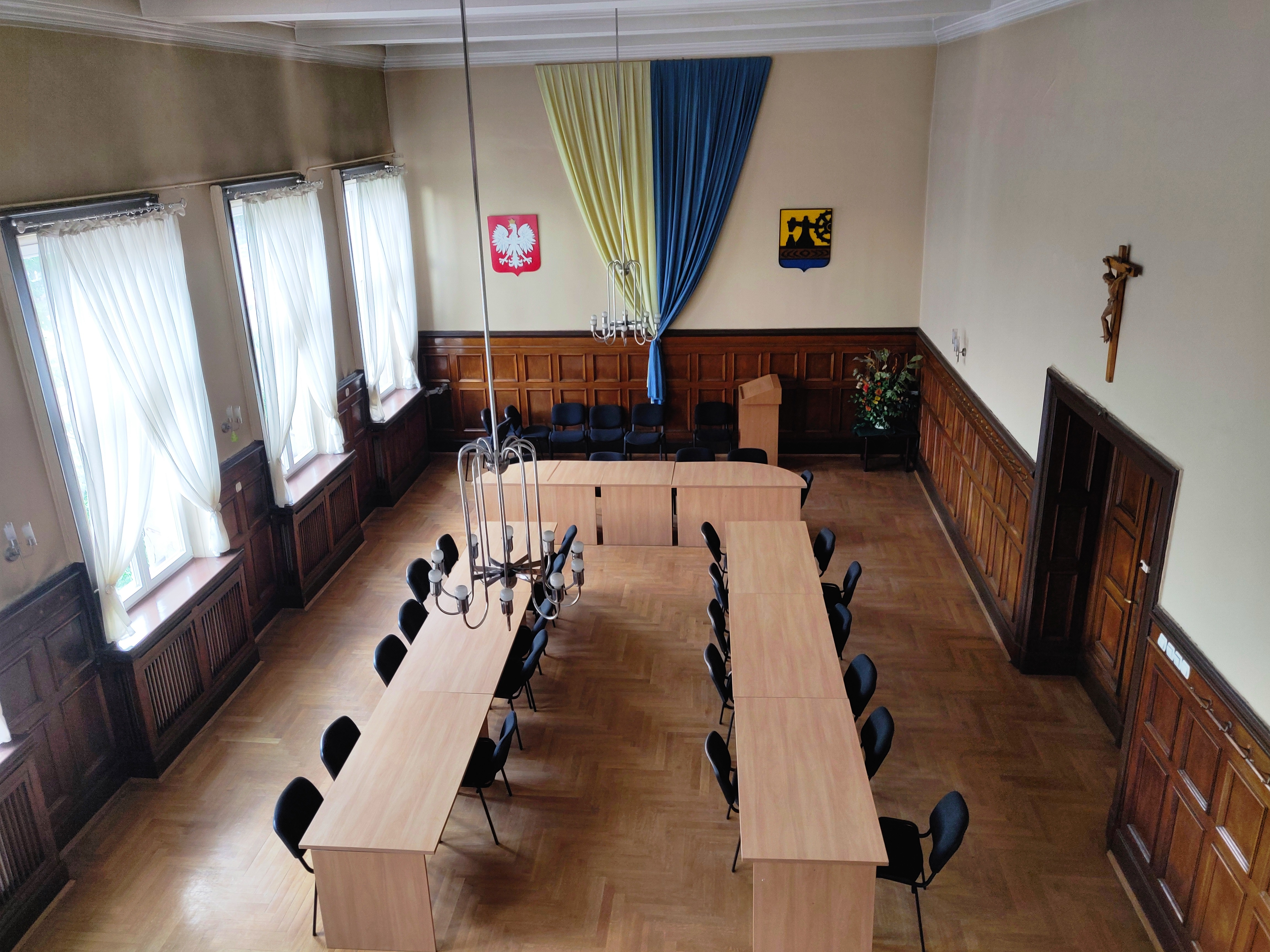 Wiosny Ludów Street in Katowice-Szopienice - former town hall (inside)